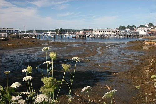 This is an image of Boothbay Harbor taken early one summer morning at low tide Image made by Robert Swanson Category:Images of Maine